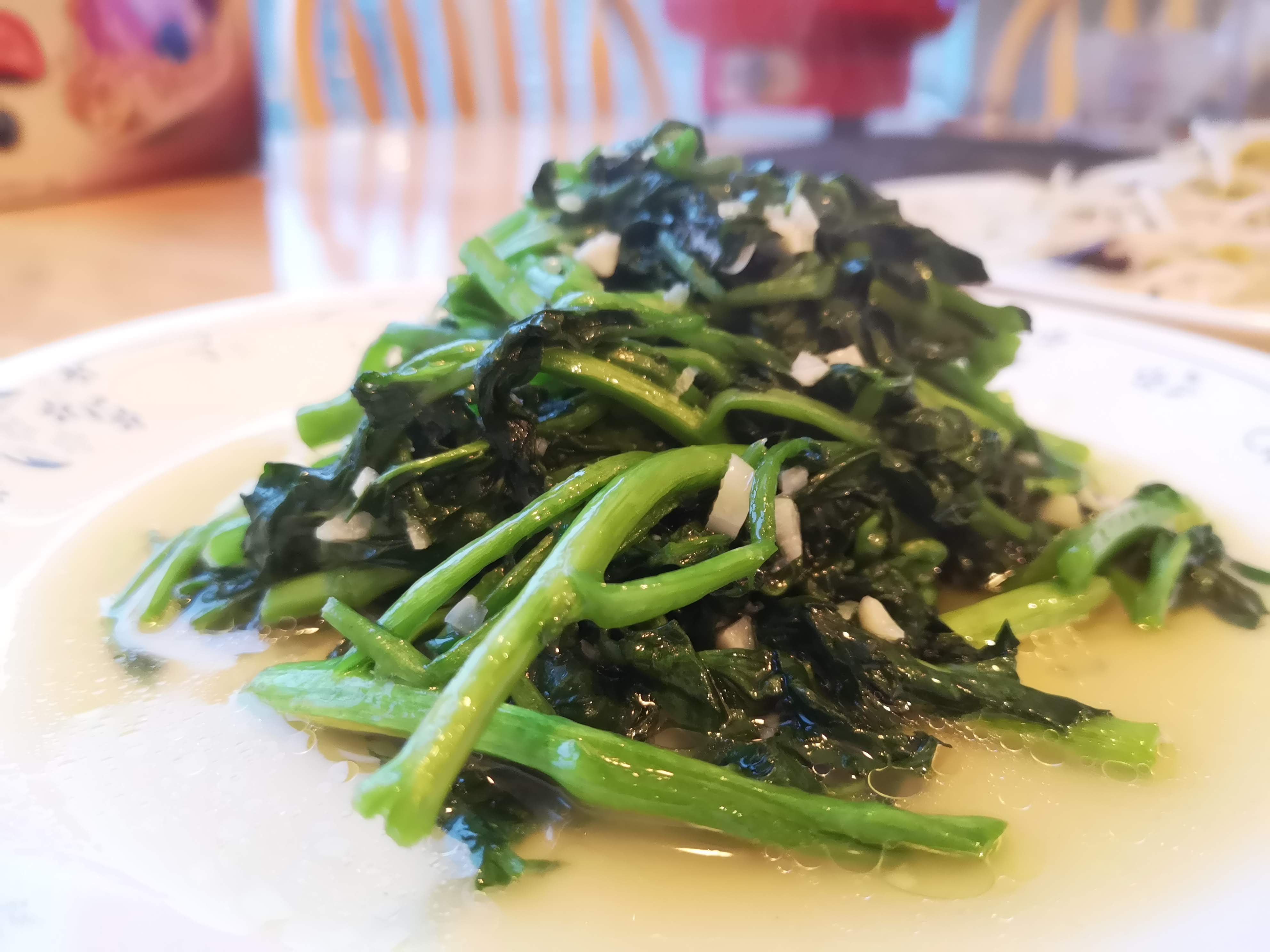 A dish of stir-fried watercress with garlic. Another dish (stir-fried bean sprouts) is visible in the background.